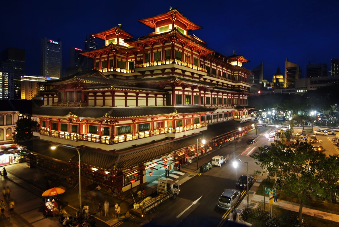 Grand Buddha Tooth Relic Buddhist Temple in Singapore.